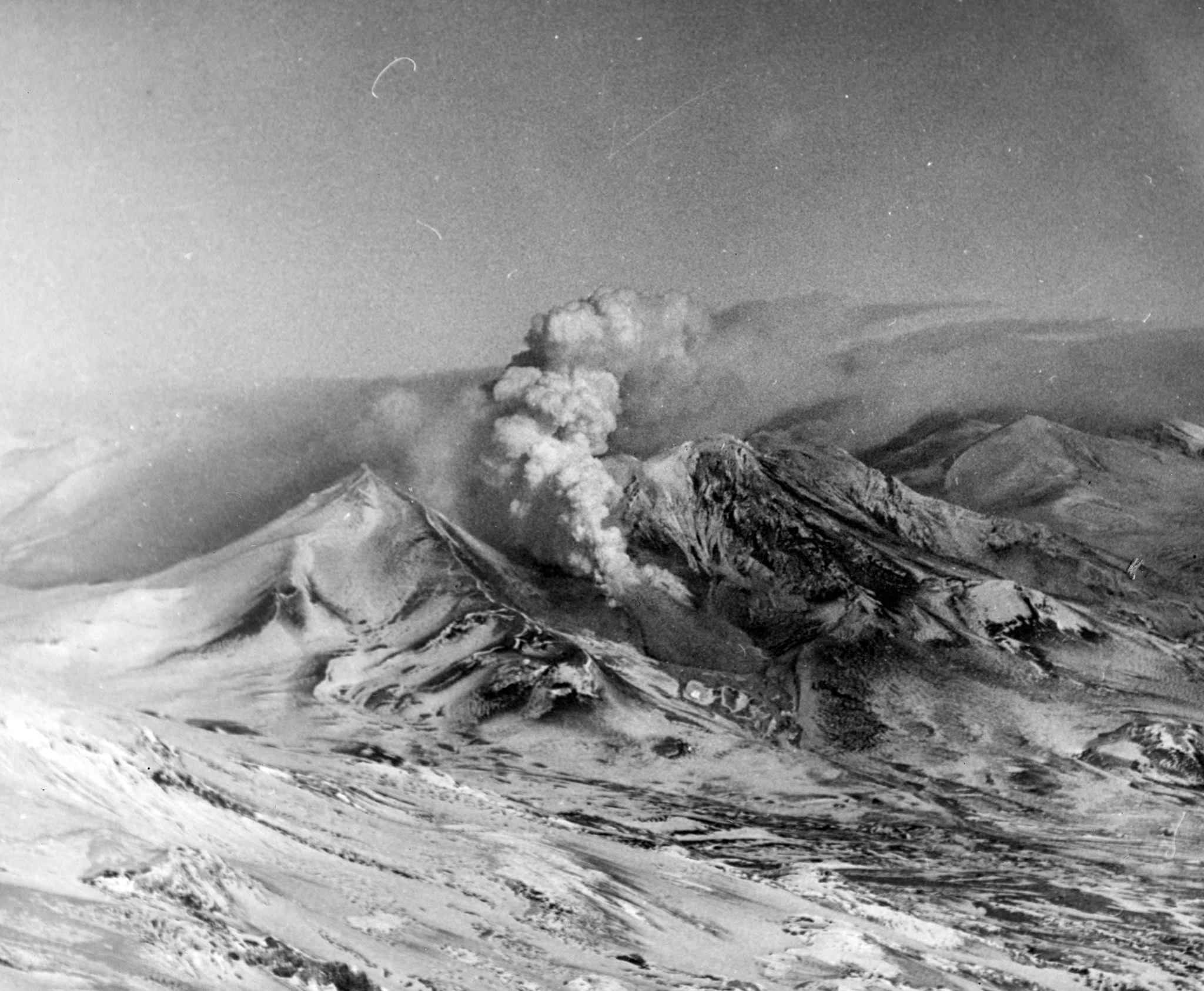 NPS picture of the 1953 eruption of Mount Trident